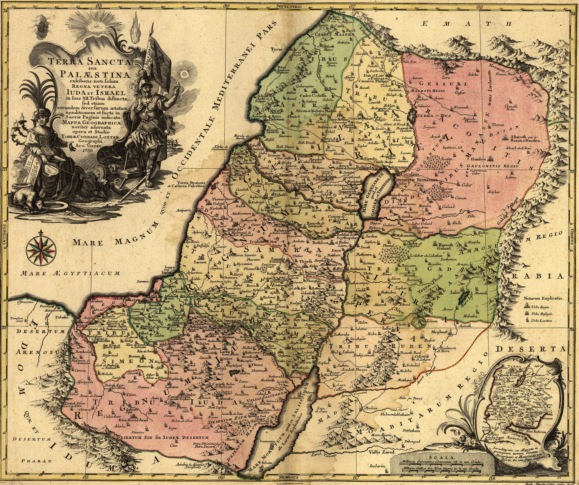 English Translation: The Holy Land or Palestine showing not only the Old Kingdoms of Judea and Israel but also the 12 Tribes Distinctly, Confirming their Locations Diversely in their Ancient Condition and Doing So as the Holy Scriptures Indicate.